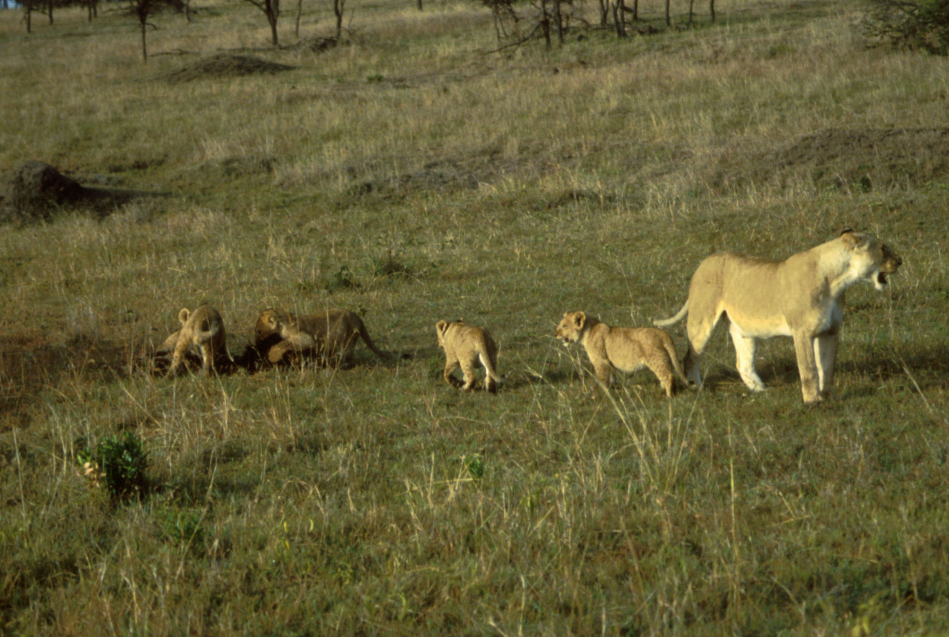 African Lion with Cubs